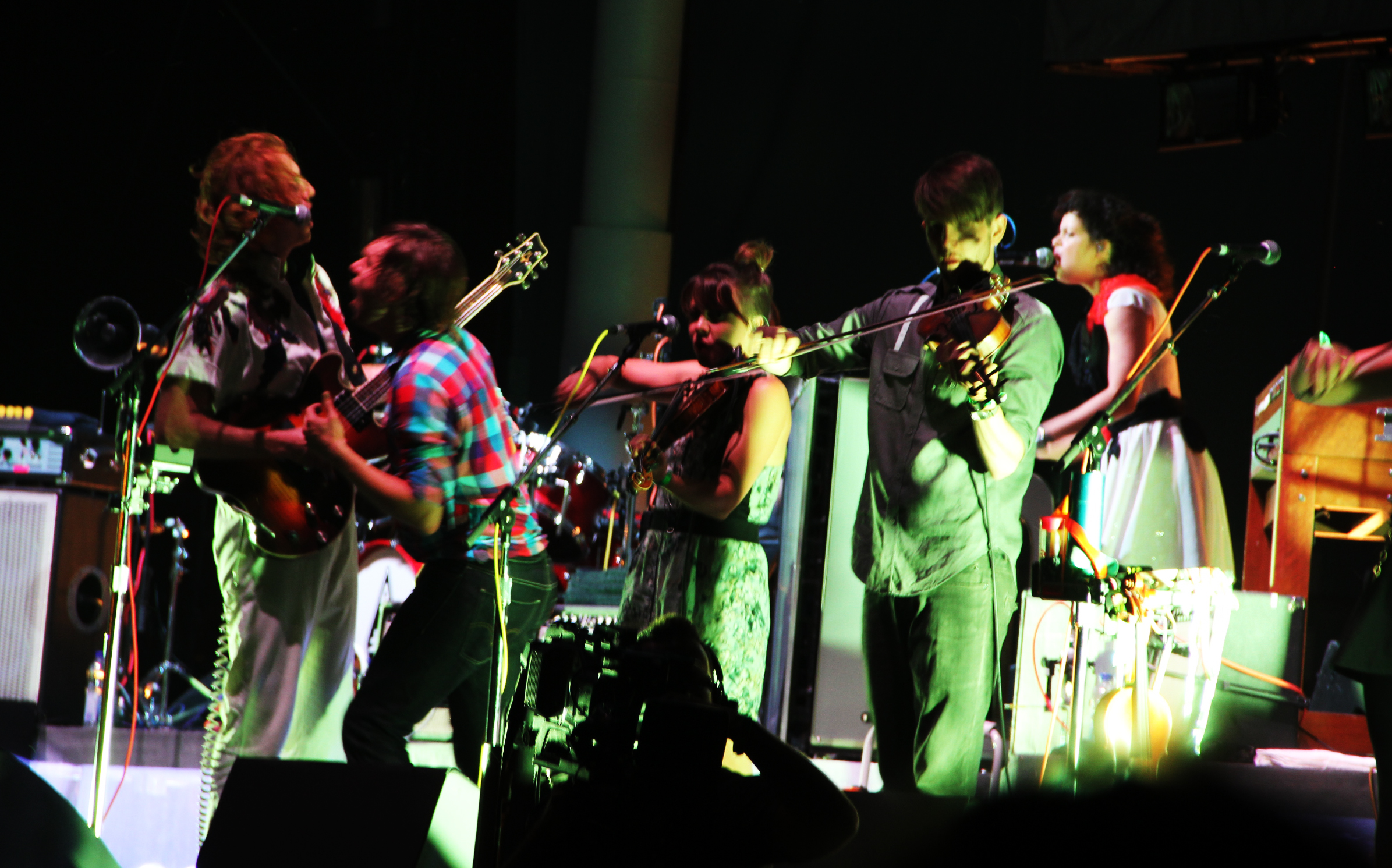 Arcade Fire on stage at Osheaga Festival in Montreal, Québec, Canada, on 31 July 2010.